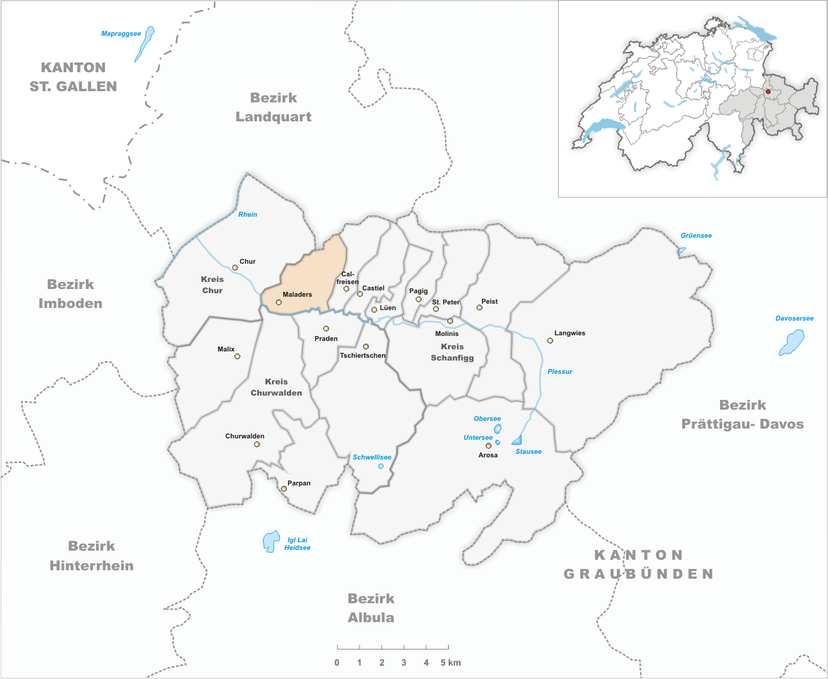 Municipality Maladers